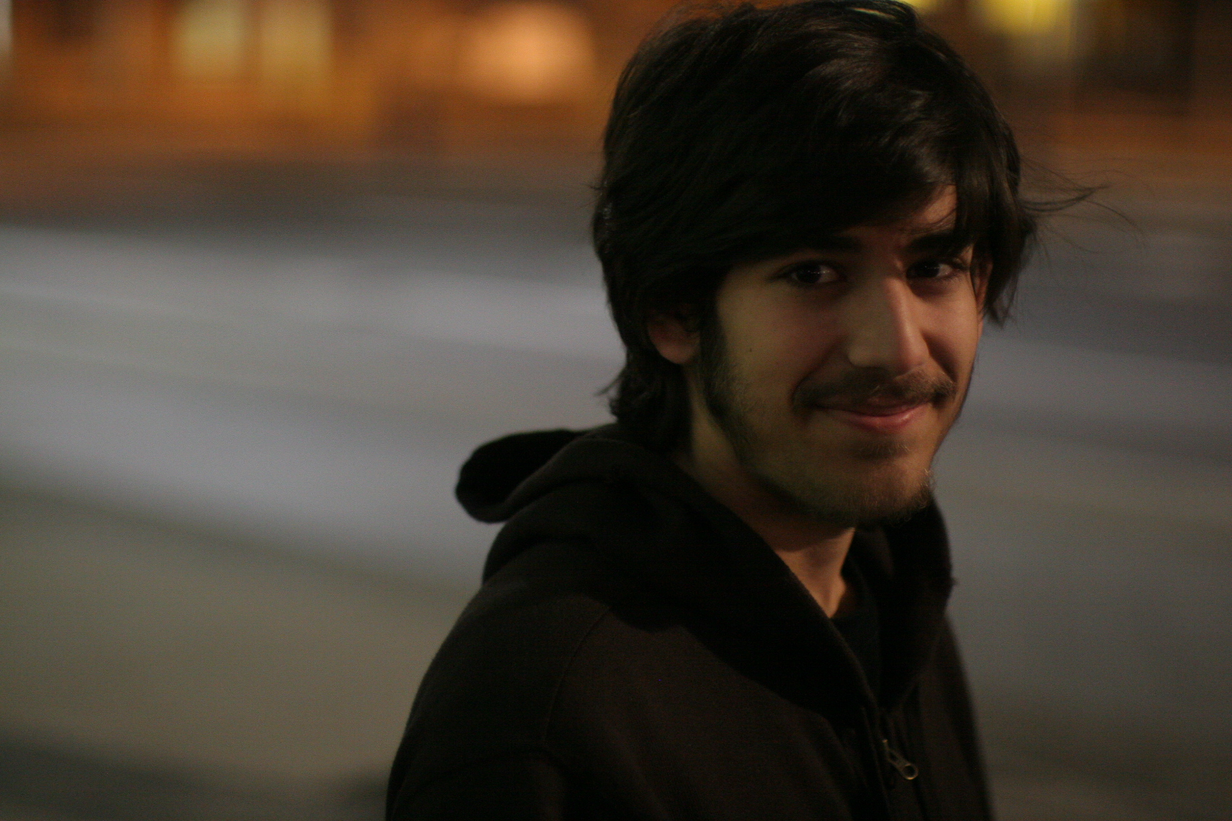 Photo from the Chaos Communication Congress 23C3 in Berlin, Germany.